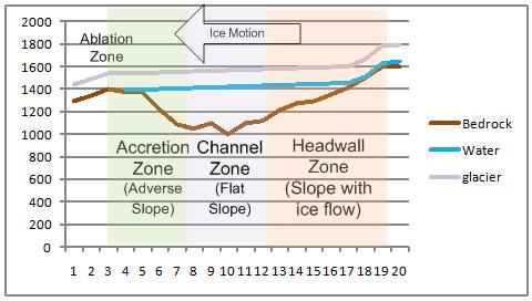 An example of an overdeepened basin in the Gamburtsev mountains in Antarctica used to illustrate adverse slope effects in the overdeepening process.